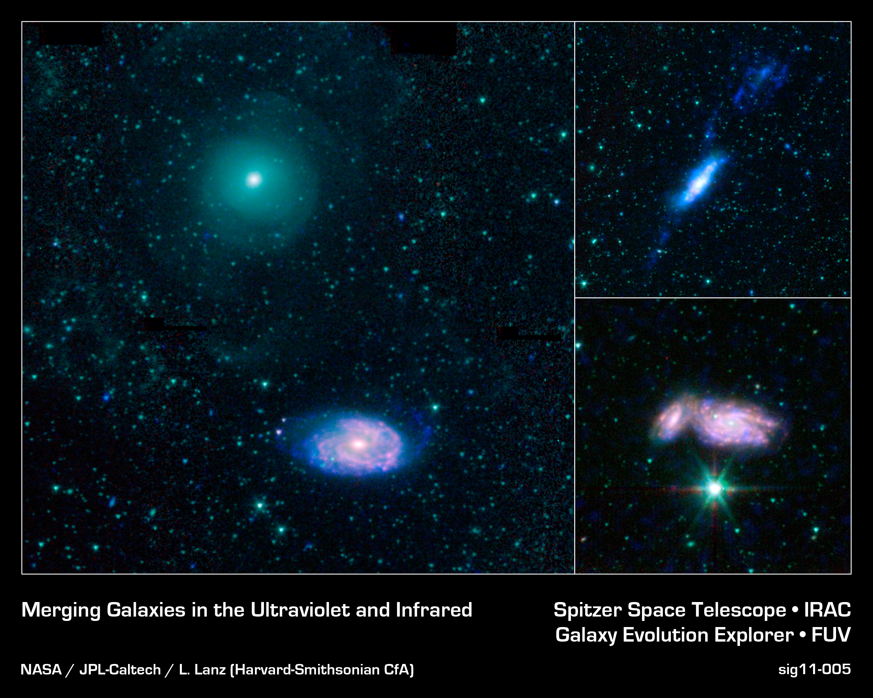 This montage shows three examples of colliding galaxies from a new photo atlas of galactic "train wrecks." The new images combine observations from NASA's Spitzer Space Telescope, which observes infrared light, and NASA's Galaxy Evolution Explorer (GALEX) spacecraft, which observes ultraviolet light. By analyzing information from different parts of the light spectrum, scientists can learn much more than from a single wavelength alone, because different components of a galaxy are highlighted. The panel at far left shows NGC 470 (top) and NGC 474 (bottom); at top right are NGC 3448 and UGC 6016; at bottom right are NGC 935 and IC 1801. In this representative-color image, far-ultraviolet light from GALEX is blue, 3.6-micron light from Spitzer is cyan, 4.5-micron light from Spitzer is green, and red shows light at 5.8 and 8 microns from Spitzer.